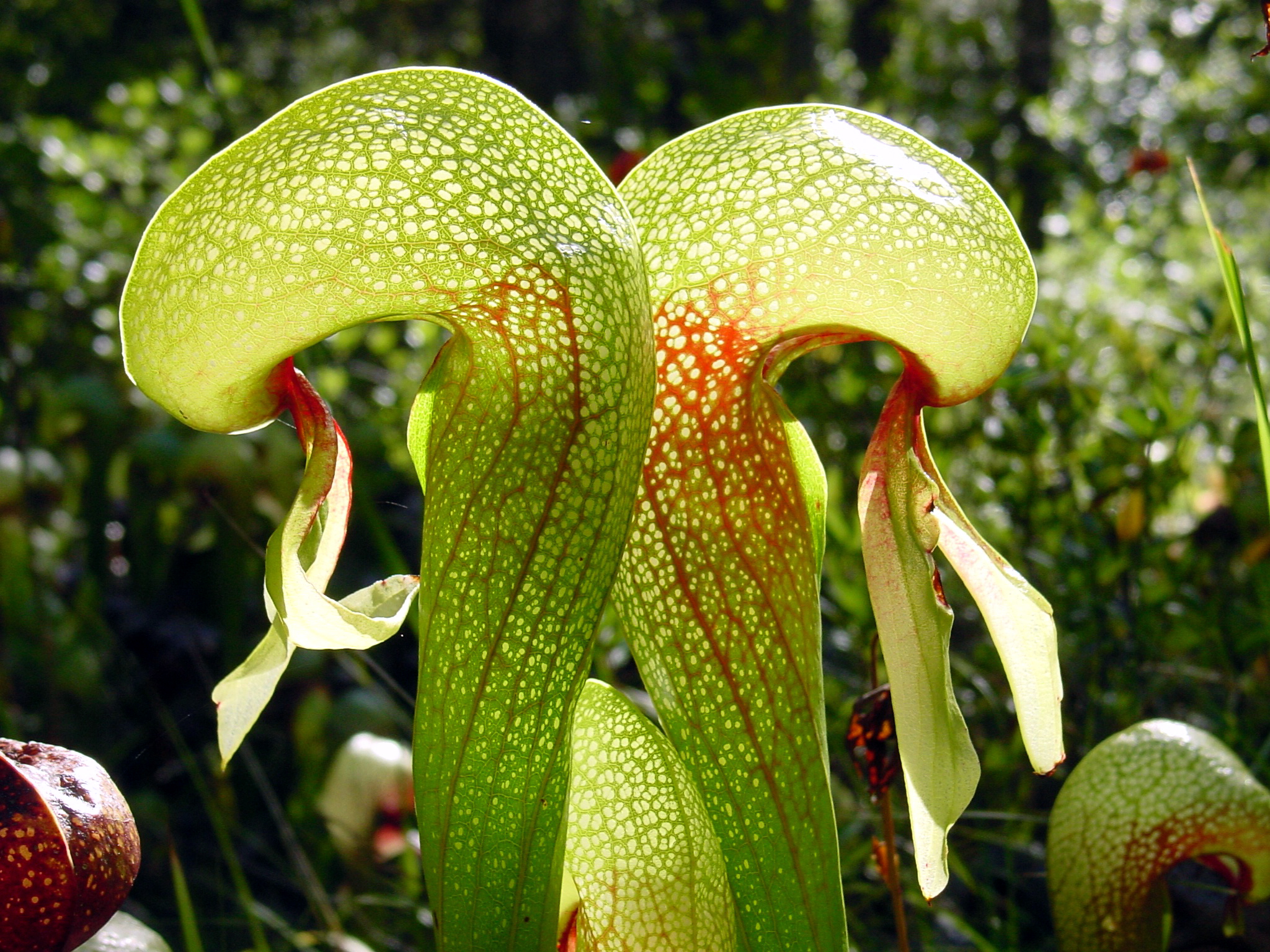 California pitcher plant (Darlingtonia californica), Botanical Trail, Butterfly Valley Botanical Area, Sierra Nevada, Plumas County, California